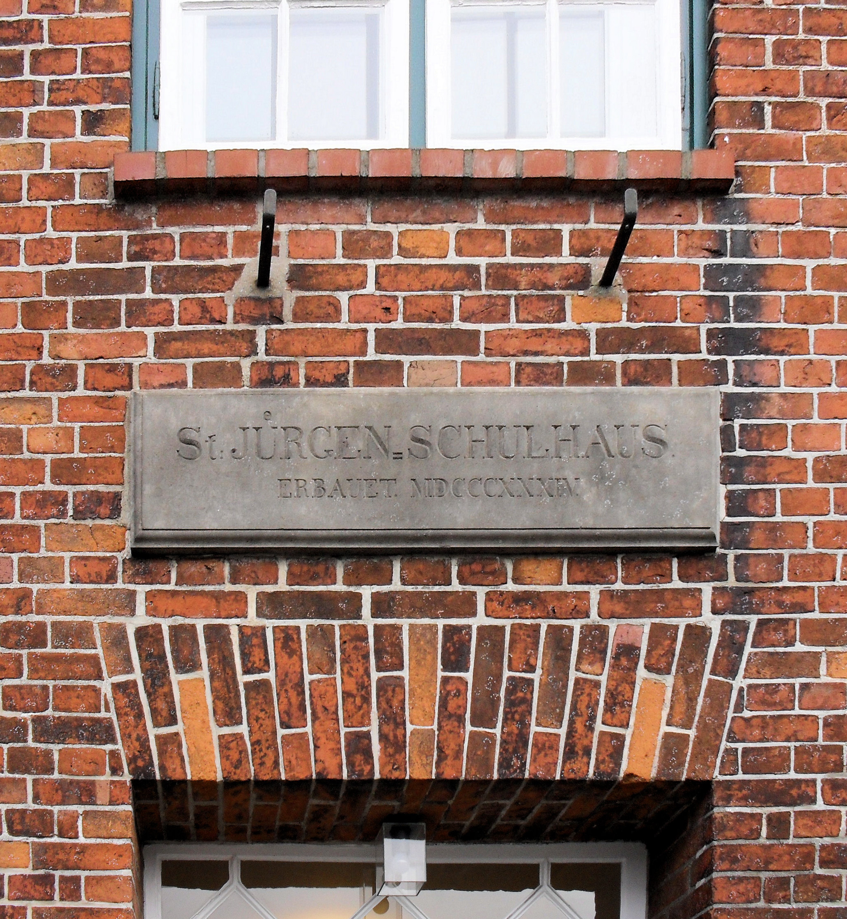 Inscription above the entrance of St. Jürgen Schoolhouse in Lübeck, Ratzeburger Allee No. 23